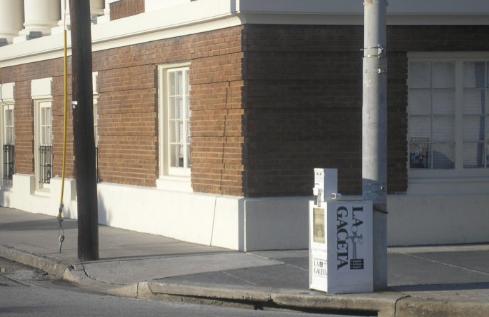 La Gaceta newspaper box in front of the Italian CLub, Ybor City, Tampa, Florida